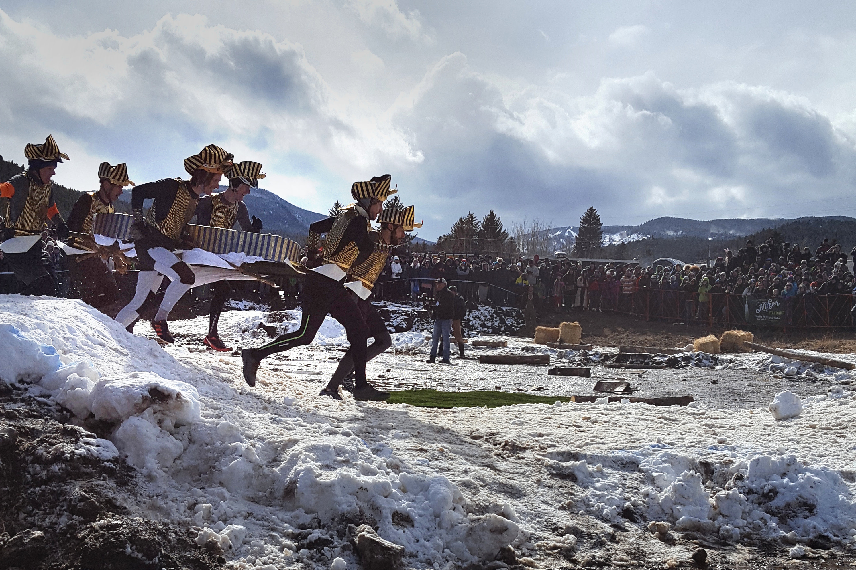 Team Fossil on their final stretch to victory in the 2018 FDGD coffin race.